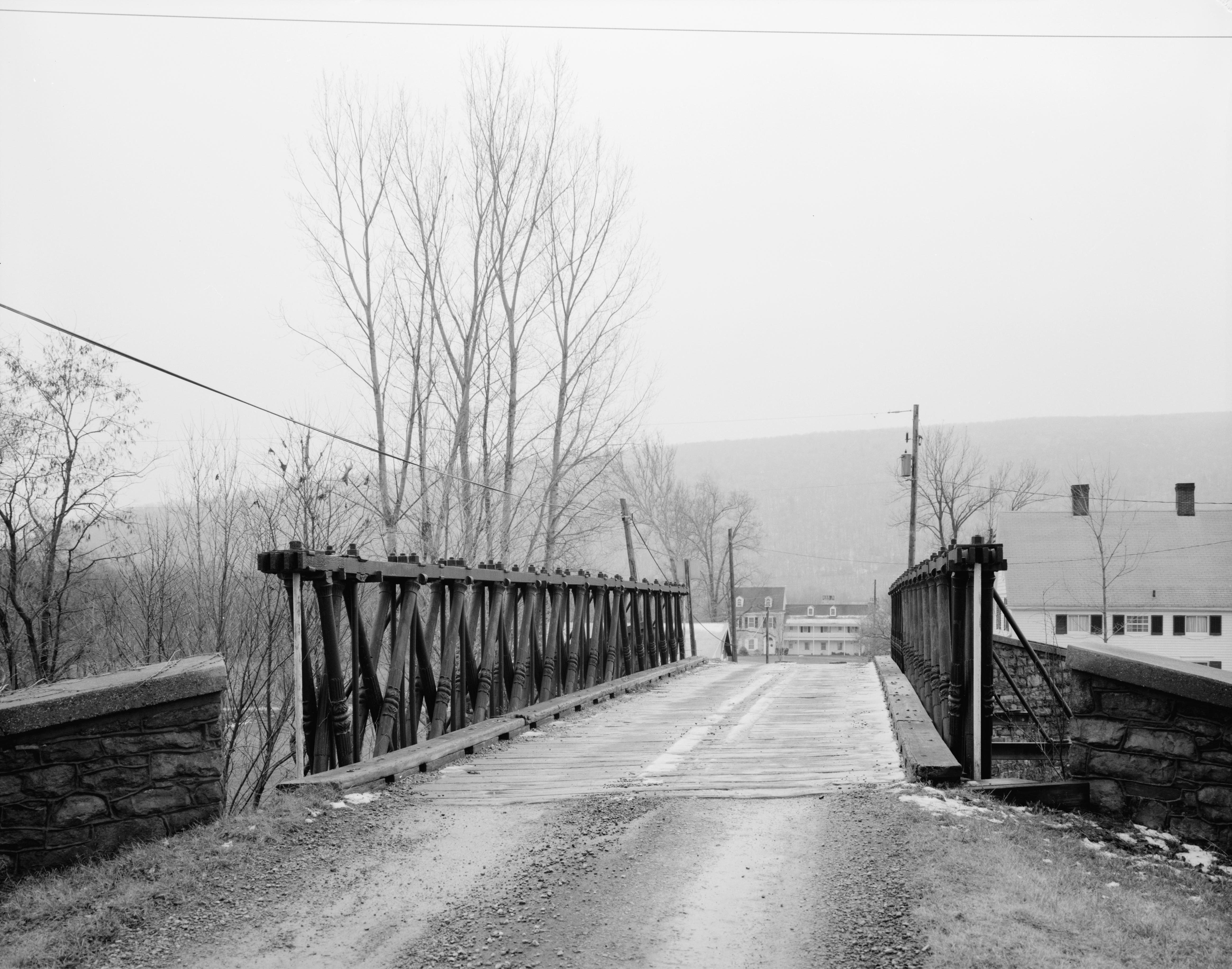 Reading-Halls Station Bridge, U.S. Route 220, spanning railroad near Halls Station, Muncy Township, Lycoming County, Pennsylvania, USA. Original number was "HAER PA,41-MUNC.V,1-6", original caption was "6. Credit JTL: View south across bridge toward farm buildings"